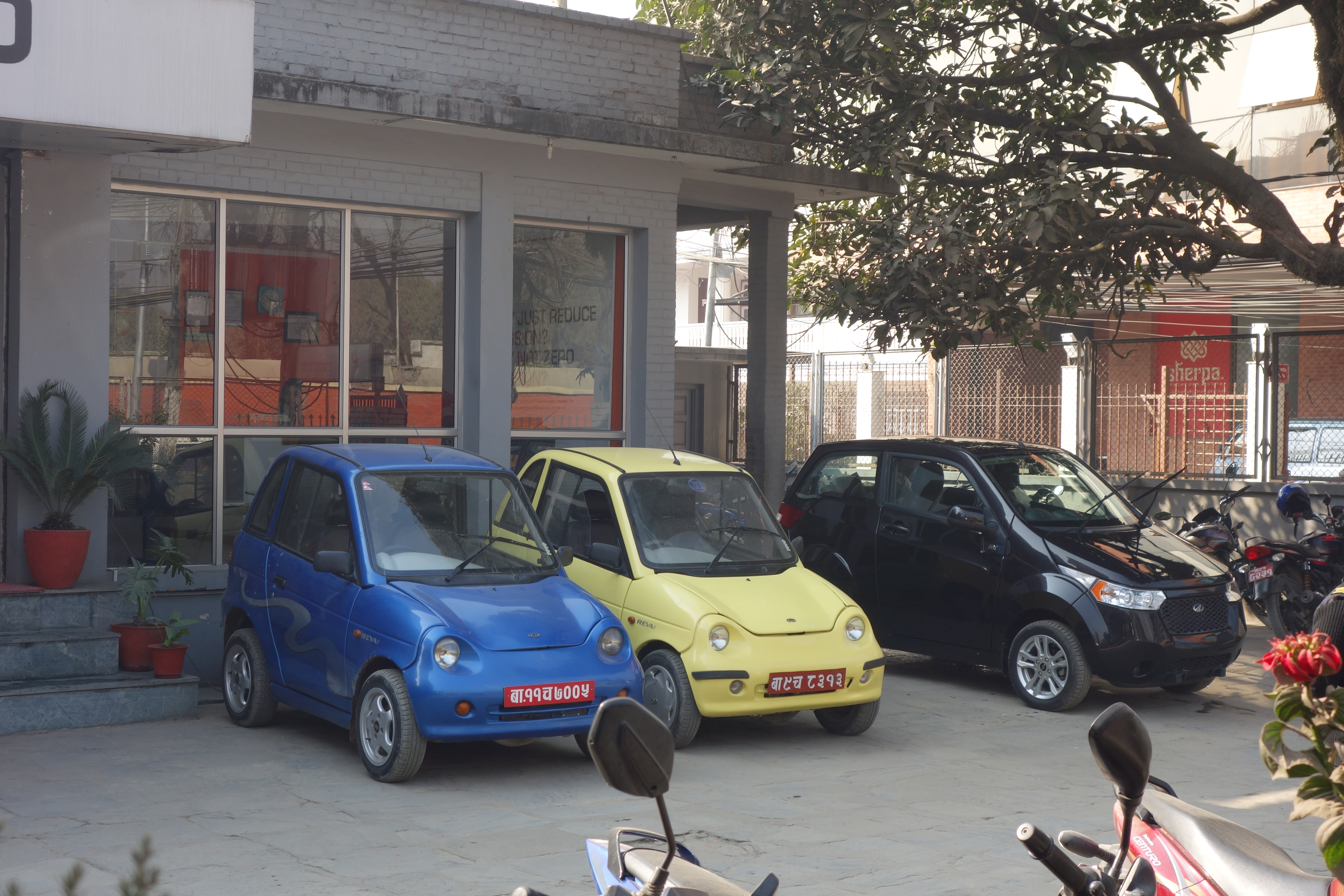 A Mahindra Reva dealership in Kathmandu selling the Mahindra e2o and Reva i.